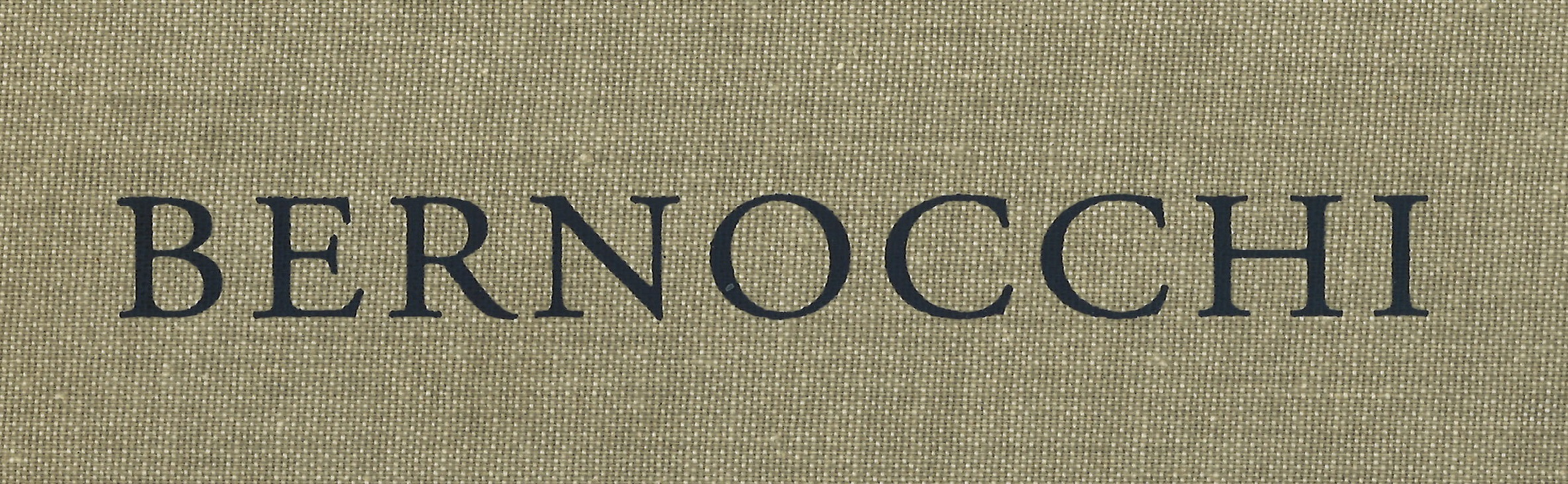 Logotype BERNOCCHI Milano 1922